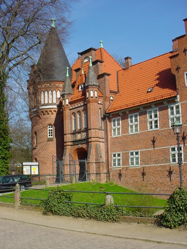 Castle of Bergedorf